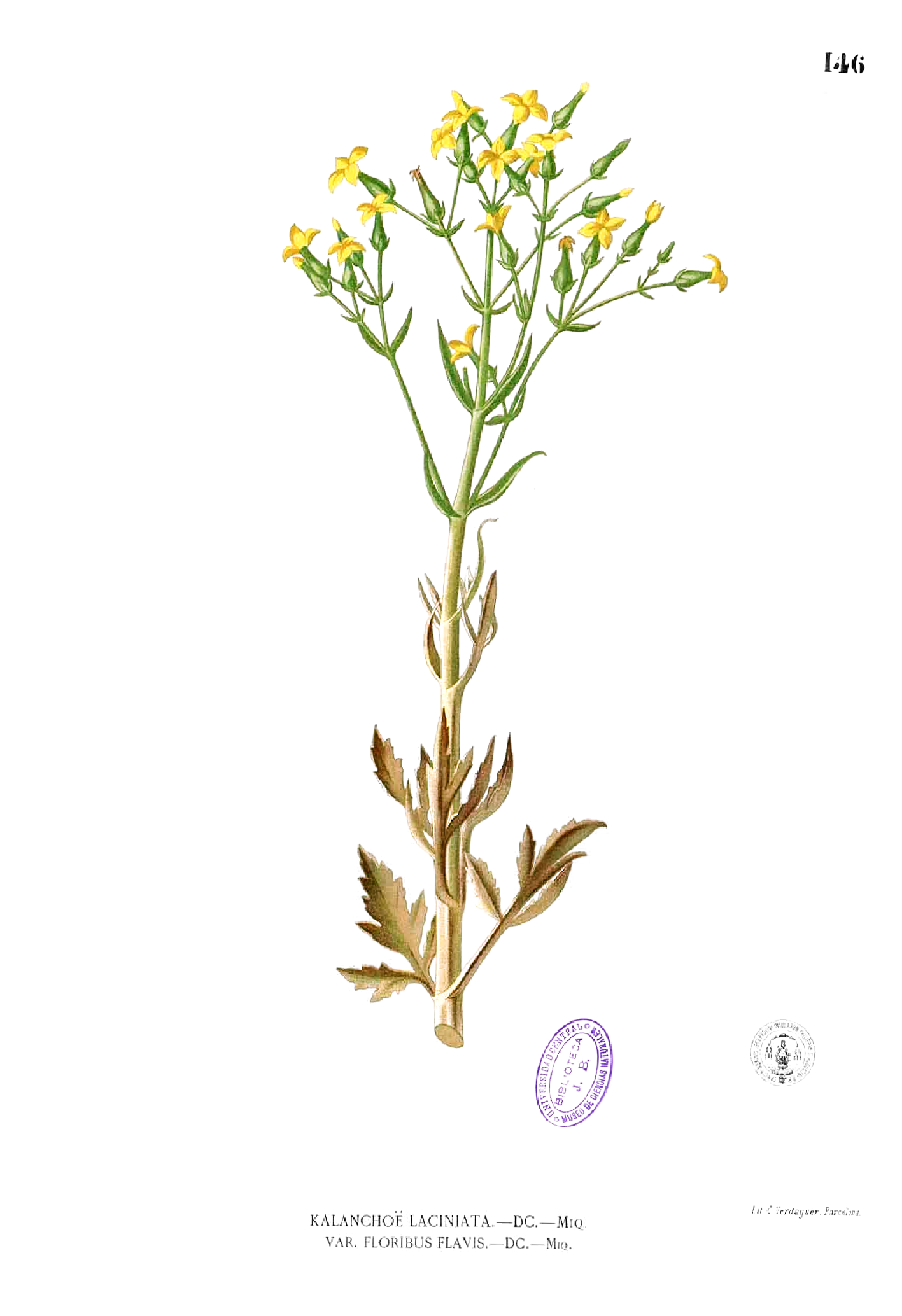 Plate from book Kalanchoe laciniata